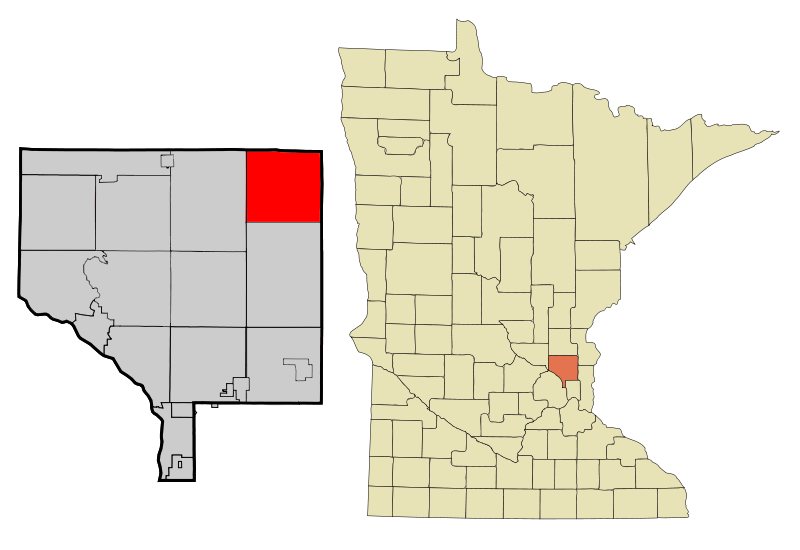 This map shows the incorporated and unincorporated areas in Anoka County, highlighting Linwood in red. This file has been updated to reflect the recent incorporation of new municipalities.